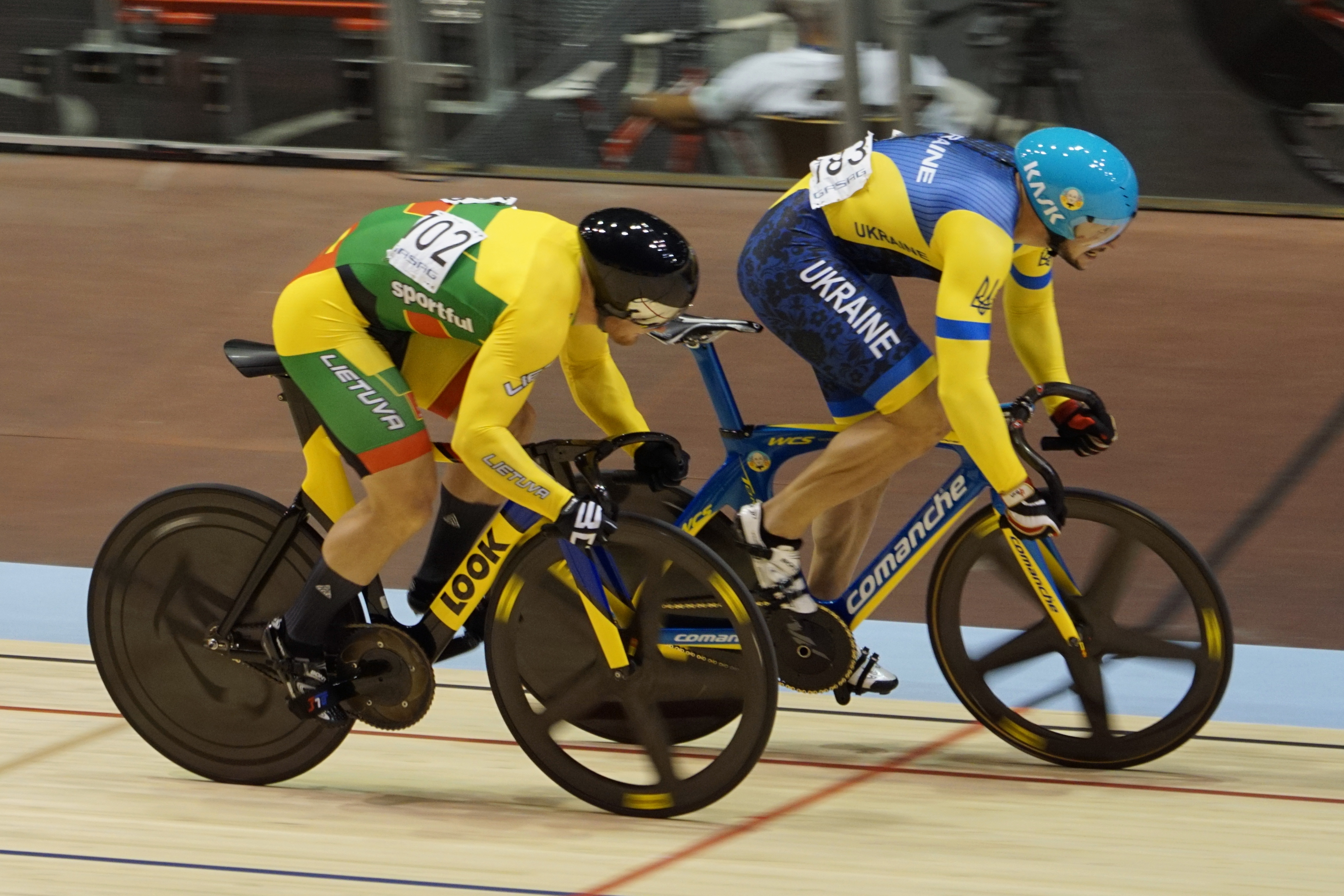 2017 UEC Track Elite European Championships - Men's Sprint 1/4 Finals Heat 4